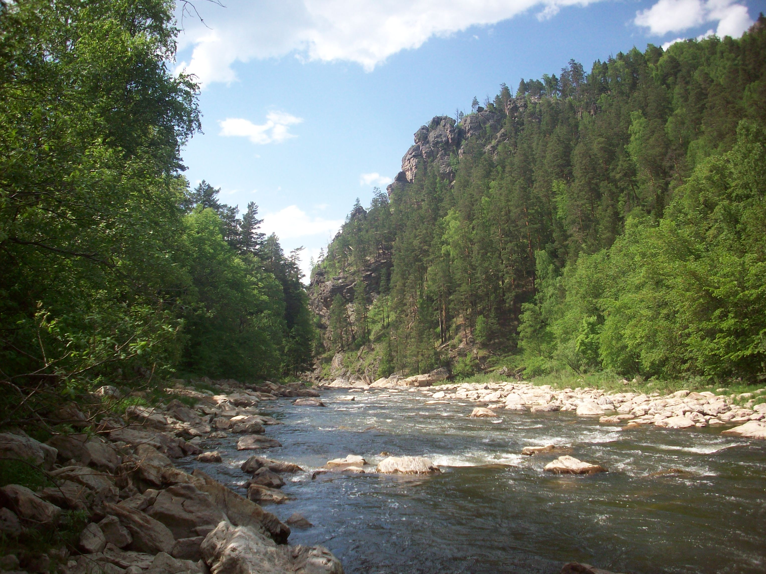 Malyi Inzer river.